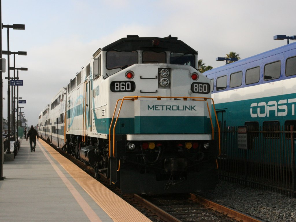 Metrolink train at Oceanside,CA. Coaster at the background 粵語: Metrolink火車喺洋濱市，同埋喺隔離嘅Coaster號。